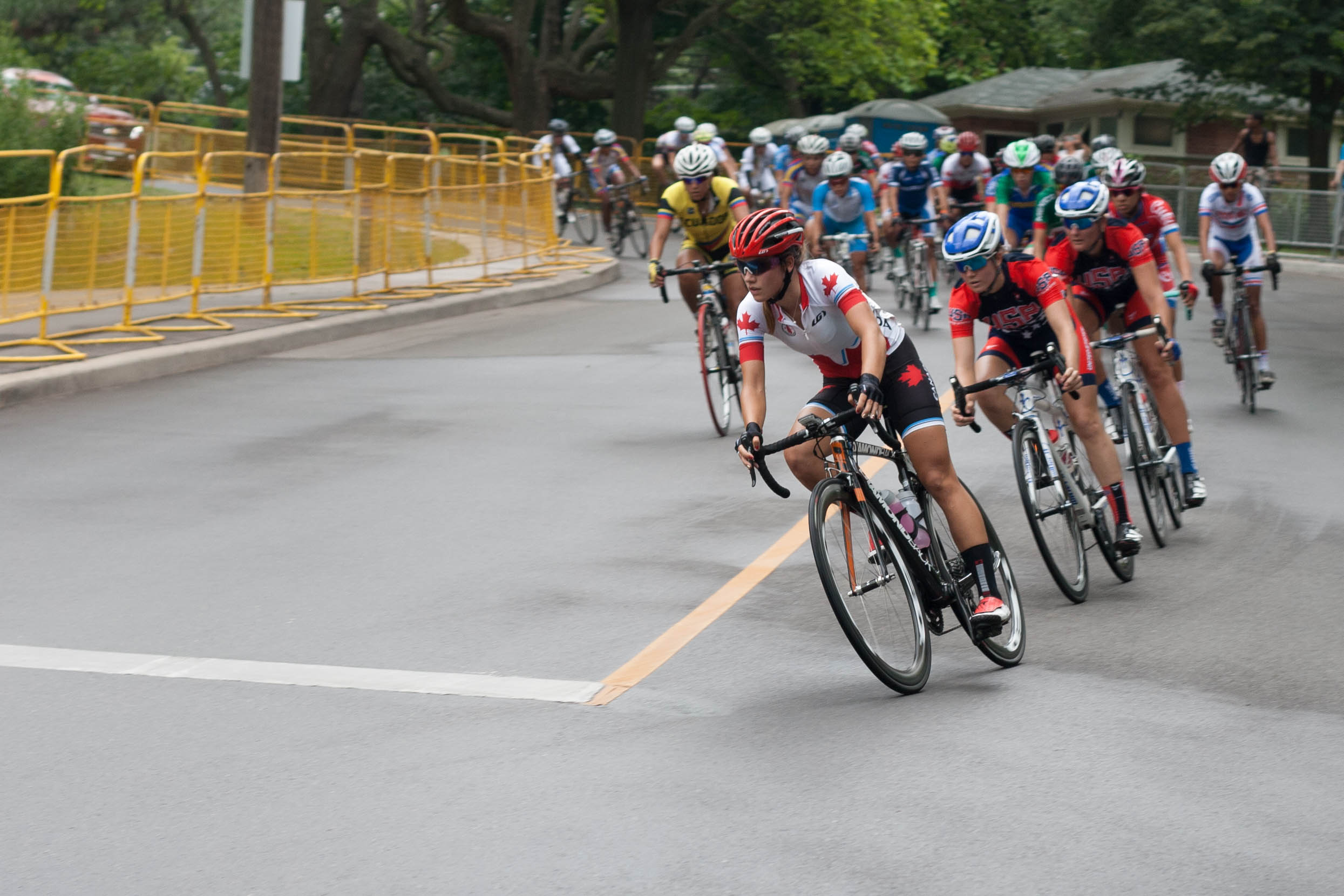 Lap 4? - Jasmin holding the lead and pushing the pace